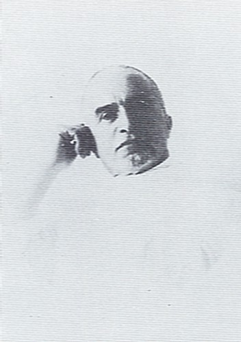 Adam Sołowij Polish scientist (physician), university professor at the Lviv University. He was murdered by German Gestapo in the Massacre of Lviv professors 4.07.1941 in Lvov.